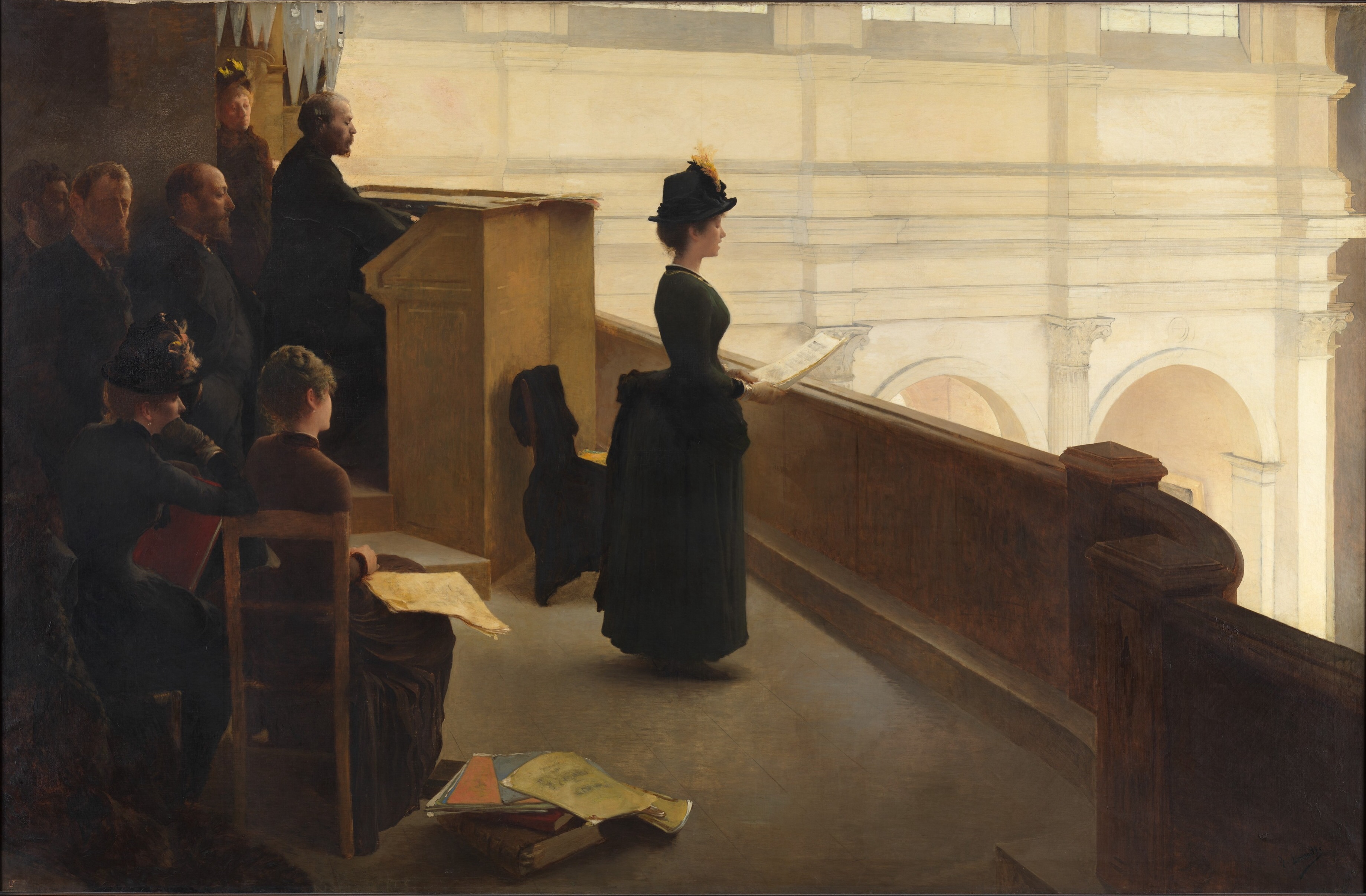 Gallery Label: Lerolle belonged to a dynamic circle of French intellectuals at the turn of the last century. Along with his brother-in-law, the composer Ernest Chausson, he collected works by Bonnard, Degas, Denis, Renoir, Vuillard, and other contemporaries. The Organ Rehearsal is Lerolle's most important painting. Set in the choir loft of the church of Saint-François-Xavier in Paris, the figures are members of the artist’s family and close friends. Lerolle's wife, shown with sheet music on her lap, sits between her two sisters: one is the singer; the other was married to Chausson, who plays the organ. Lerolle appears at left, facing outward. This monumental composition, which bears comparison to other contemporary scenes of modern life, such as Seurat's A Sunday on La Grande Jatte (1884–86, The Art Institute of Chicago), was exhibited at the Salon of 1885. The following year, it debuted in New York, in the first major Impressionism exhibition held in America. The picture was a triumph: shortly before it was presented as a gift to the Museum by the banker and philanthropist George I. Seney (1826–1893) in 1887, a critic wrote "thousands will remember The Organ Rehearsal…spectators often spoke low before it, as if waiting for the organ to play and the voice of the singer to be heard."